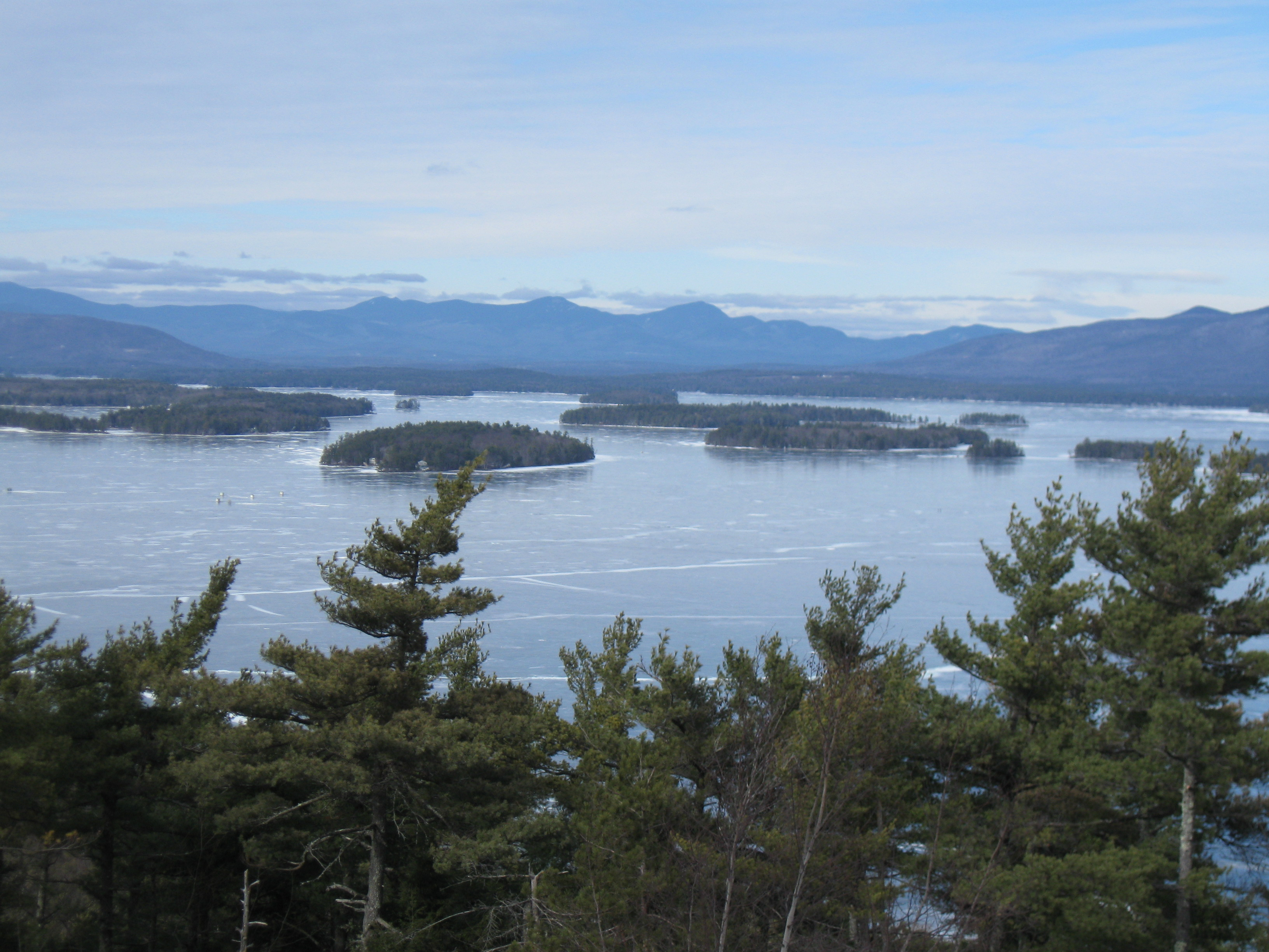 View of Lake Winnipesaukee in New Hampshire, looking from above Kimball Castle in Gilford north towards the Sandwich Range of the White Mountains. Photo by Ken Gallager, February 15, 2010.